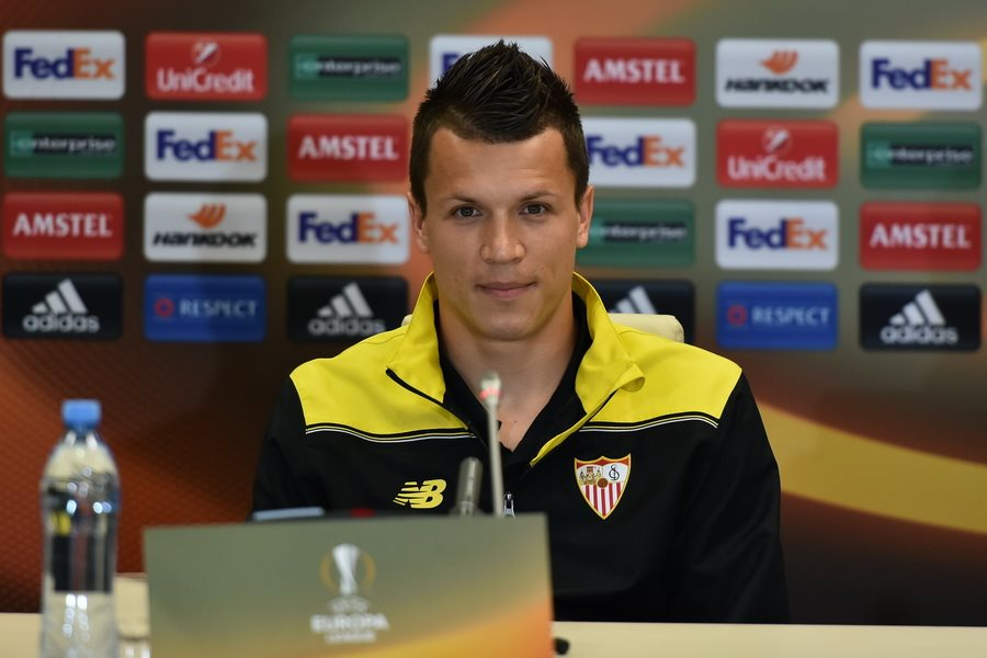 Yevhen Konoplyanka